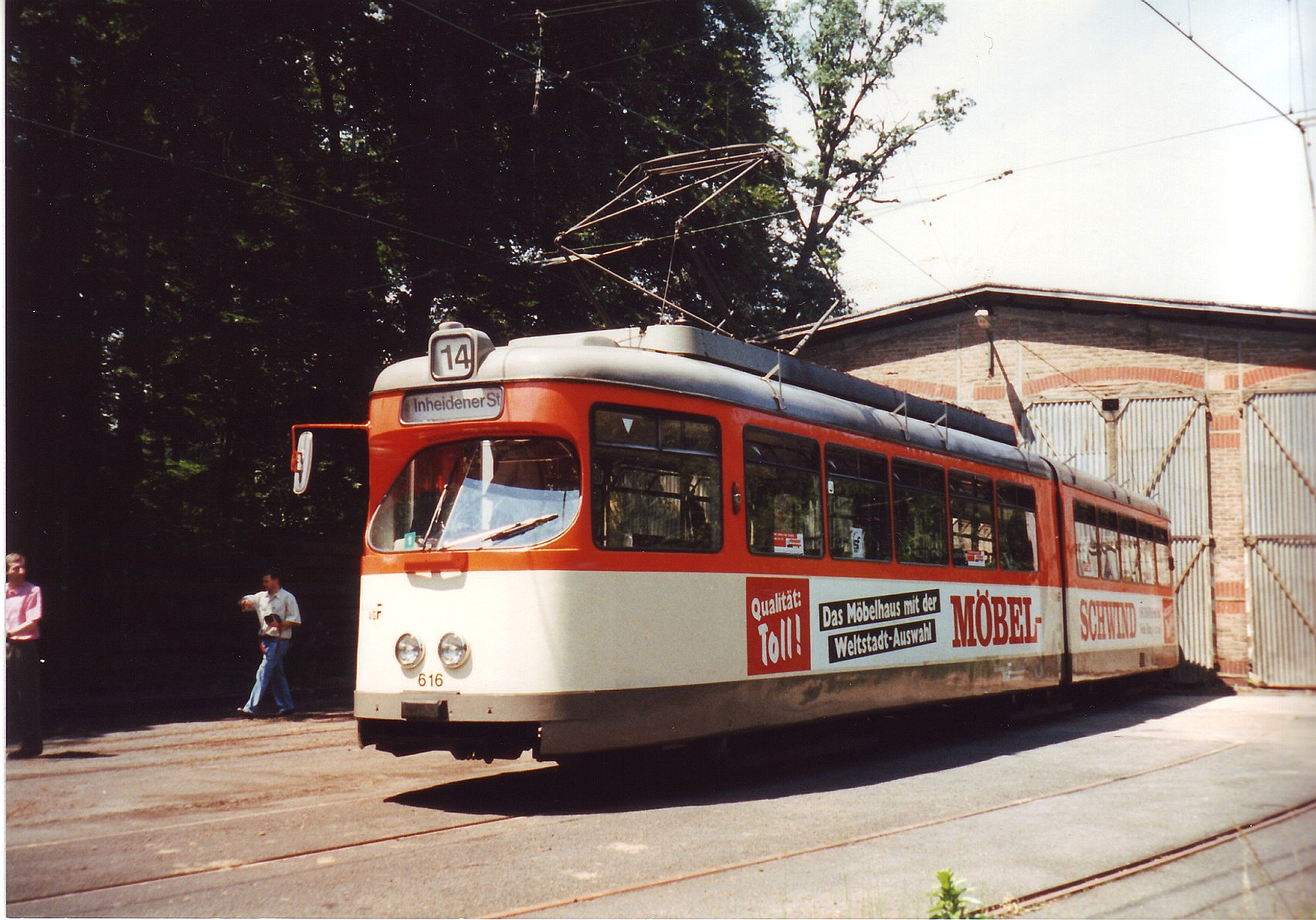 Wagenhalle (Tram Depot) of the Frankfurter Waldbahn near Neu-Isenburg with M-type railcar 616 in June 1998